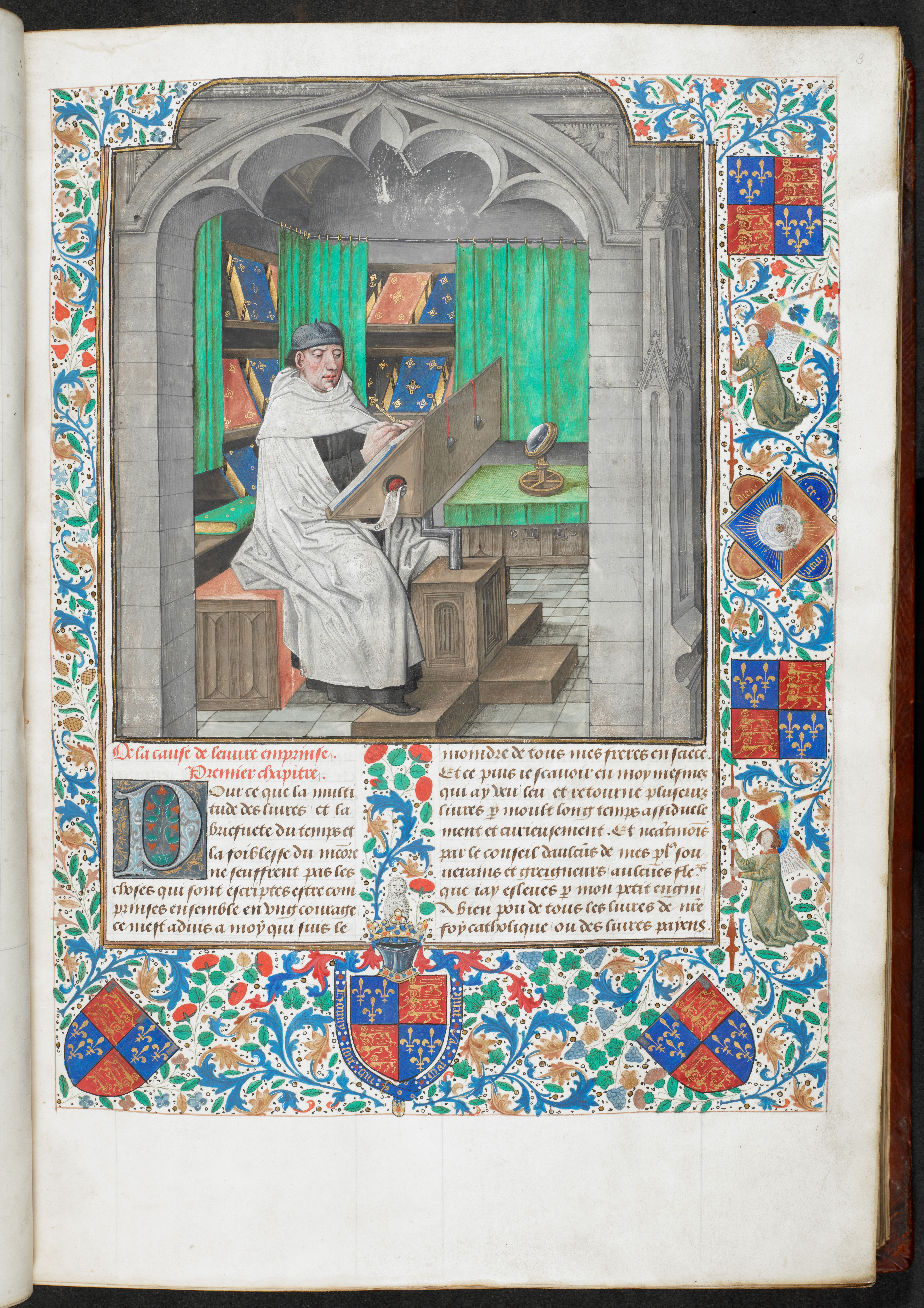 Miniature of the book’s author, Vincent of Beauvais, within a border containing the arms of Edward IV, to whom this manuscript belonged. Miroir historial, vol. 1 (Vincent of Beauvais, Speculum historiale, trans. into French by Jean de Vignay), Bruges, c. 1478-1480, Royal 14 E. i, vol. 1, f. 3r